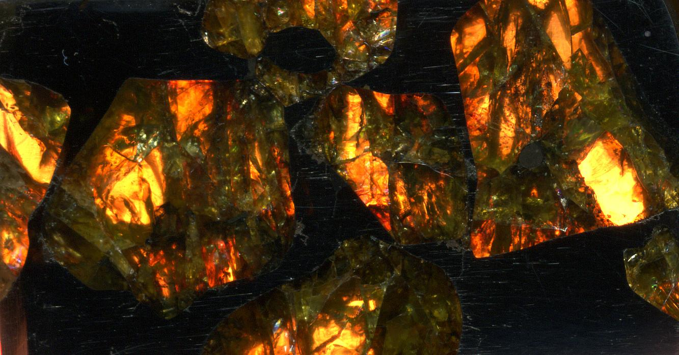 Fukang meteorite, pallasite. Cut & polished slice (~3.3 cm across) of the Fukang meteorite. Back-illuminated to show forsterite olivine transparency. The black areas are metallic iron-nickel.